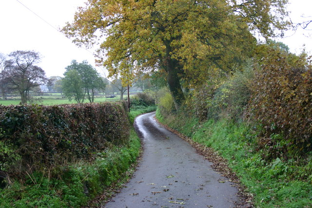 A country lane, Hartley Green This country lane leads to Gayton. The lane is circular so whichever direction you travel you will still arrive at Gayton, a small village near to Weston, Staffordshire.